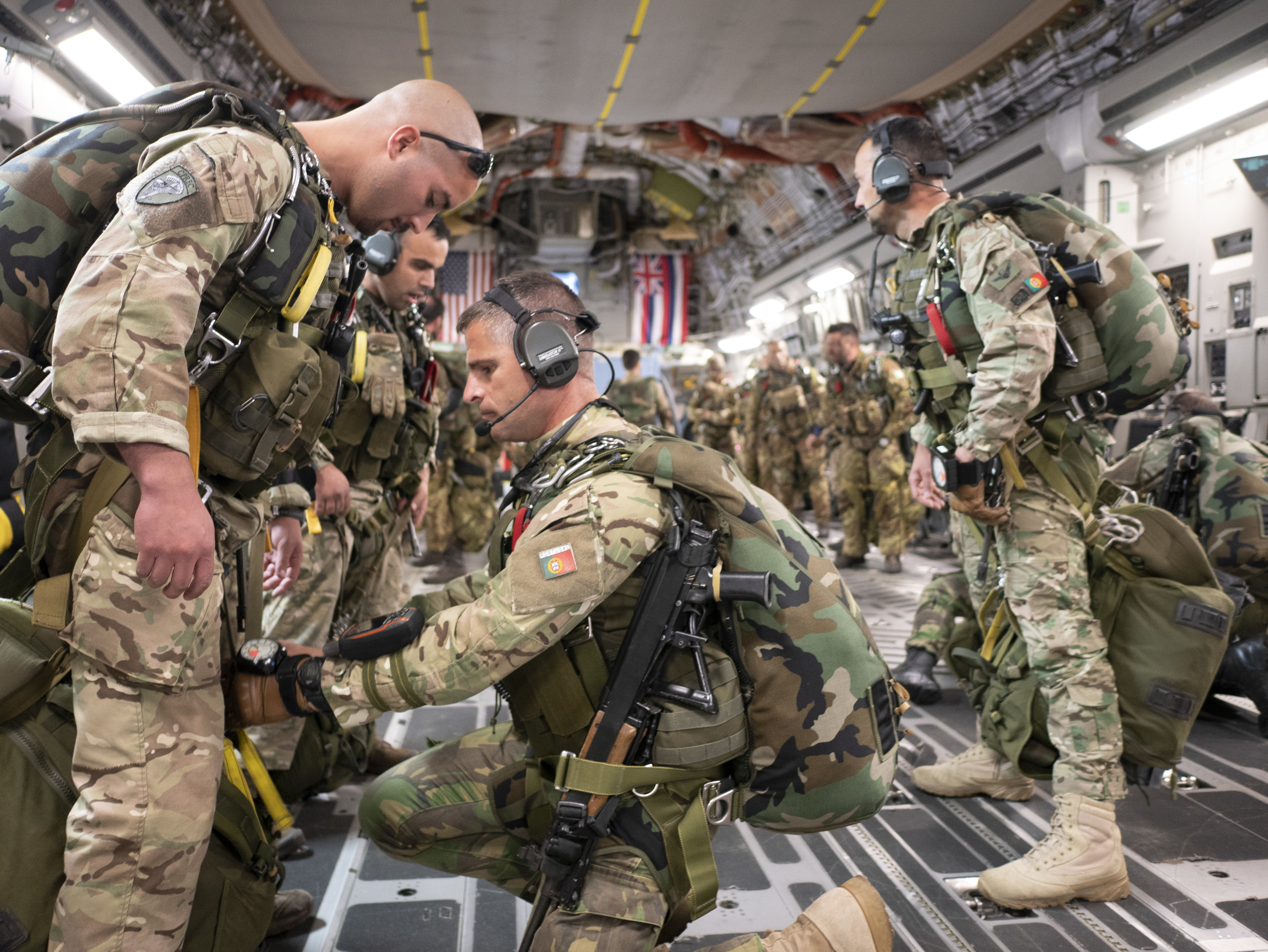 Members of the Italian Army 186th Airborne Regiment Forlgore Brigade prepare for a high altitude low opening (HALO) jump alongside Portuguese Army Rapid Reaction Pathfinders in preparation for exercise Swift Response 18, June 6, 2018, while flying toward Latvia on a C-17 Globemaster III, operated by the Hawaii Air National Guard. SR18 is one of the premier military crisis response training events for multinational airborne forces in the world that demonstrates the ability of America's Global Response Force to work hand-in-hand with joint and total force partners. (U.S. Air National Guard photo by Senior Airman John Linzmeier)